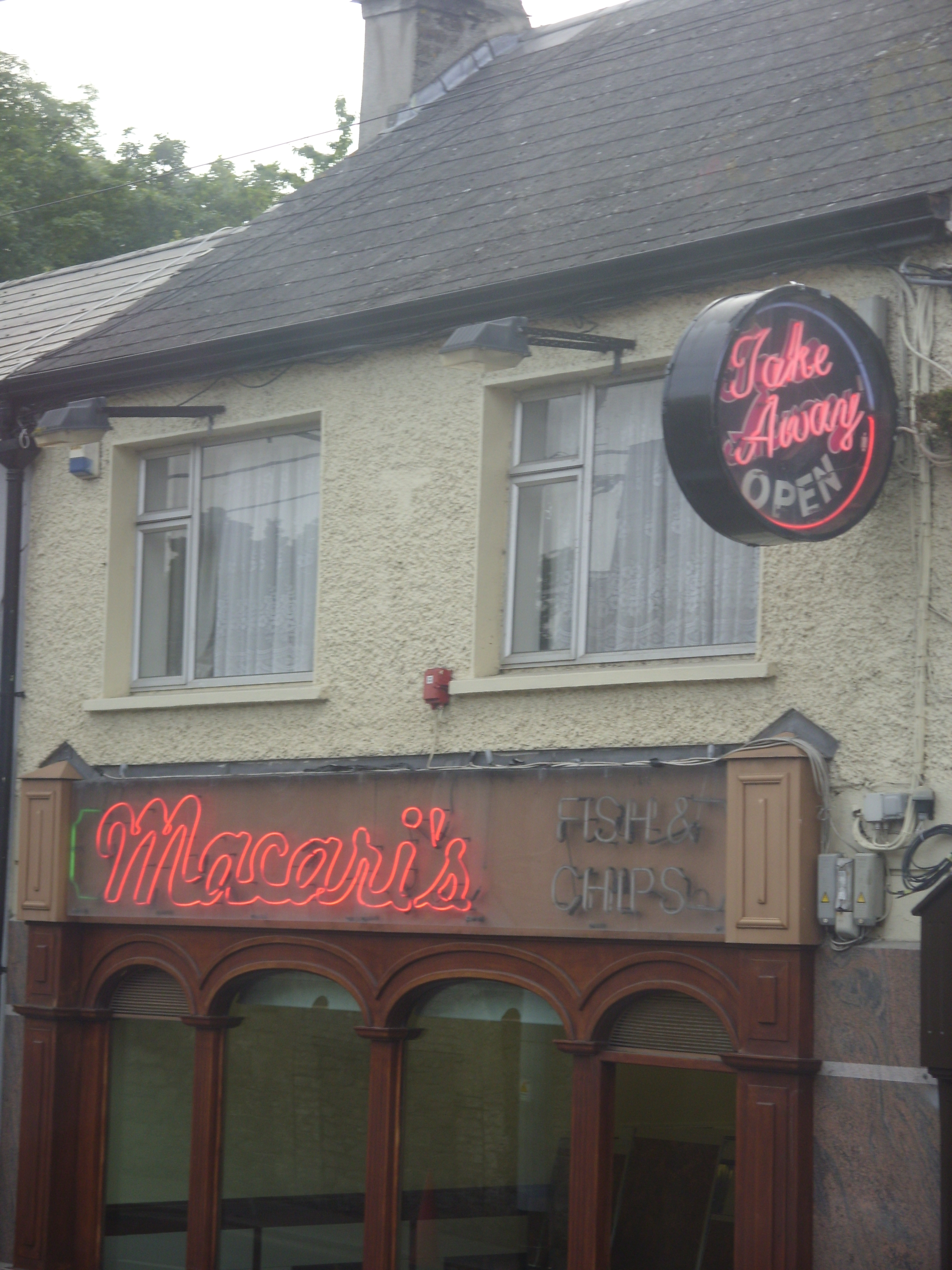 Macari's takeaway, Celbridge